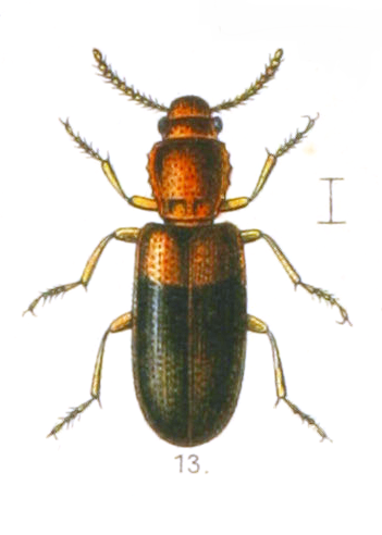 Lissodema pustulatum Mrsh. = Lissodema denticolle (Gyllenhall, 1813), adult, dorsal view